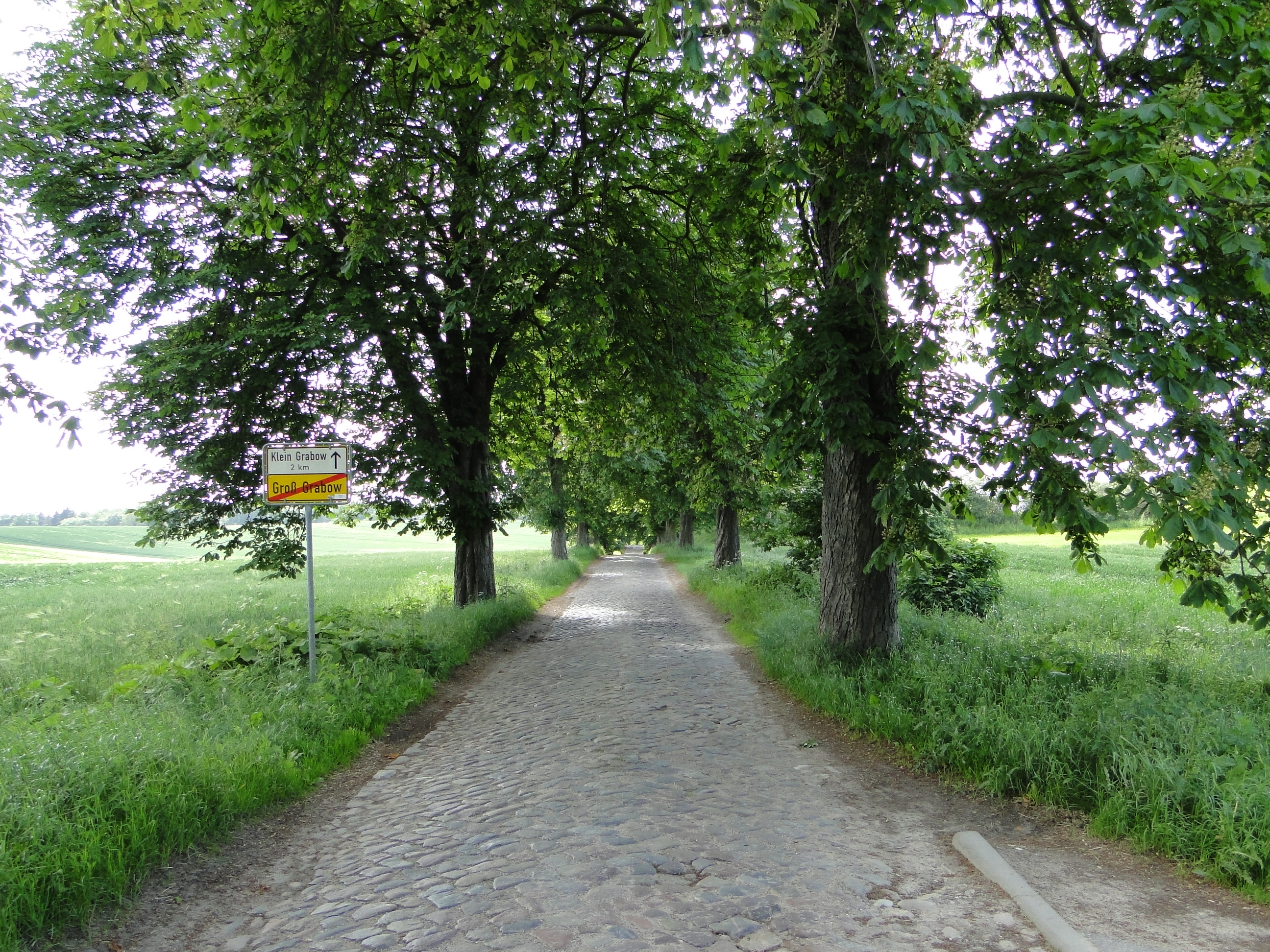 Avenue in Groß Grabow, district Güstrow, Mecklenburg-Vorpommern, Germany